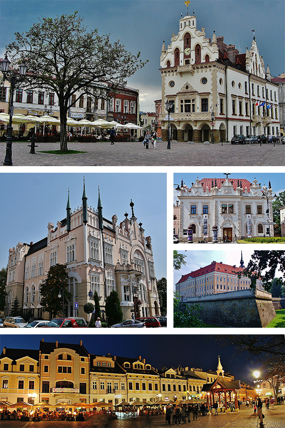 Collage of views of Rzeszów, Poland